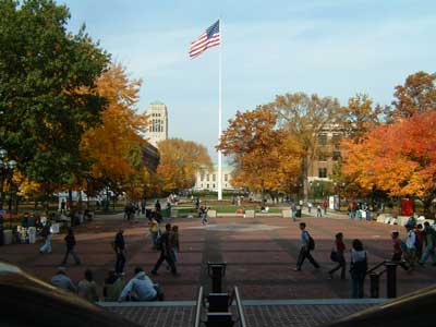 I took this in November 2004. Mohd Hafiz Noor Shams =) Share around folks!